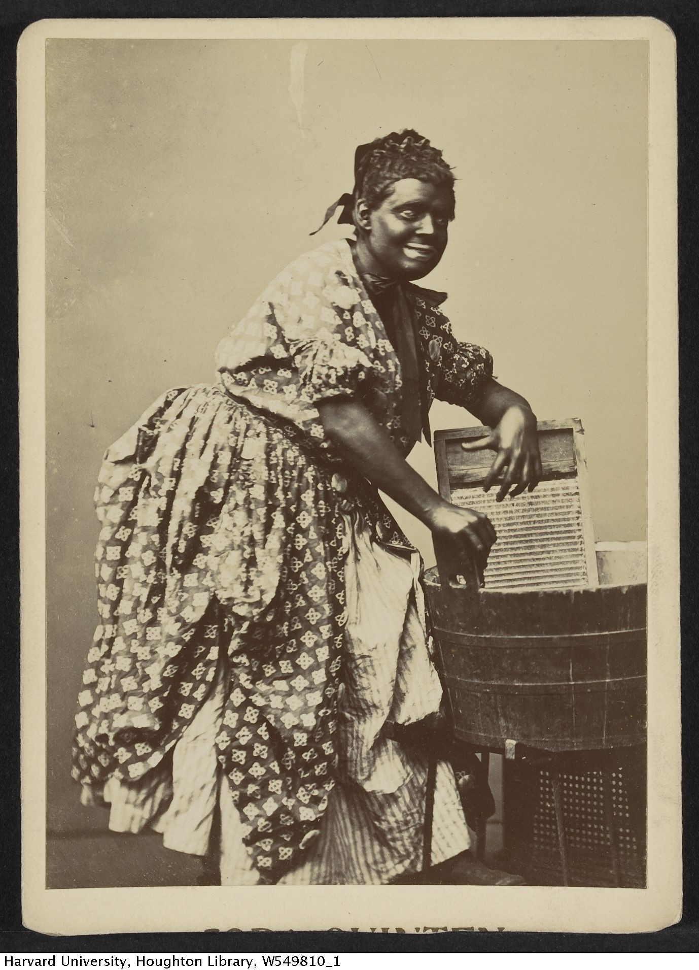 Cabinet card image of American minstrel performer Samuel S. Sanford (1821-1905), in character wearing blackface and dressed as a woman. Sanford founded Sanford's Opera Troupe of minstrel performers. TCS 1.935, Harvard Theatre Collection, Harvard University